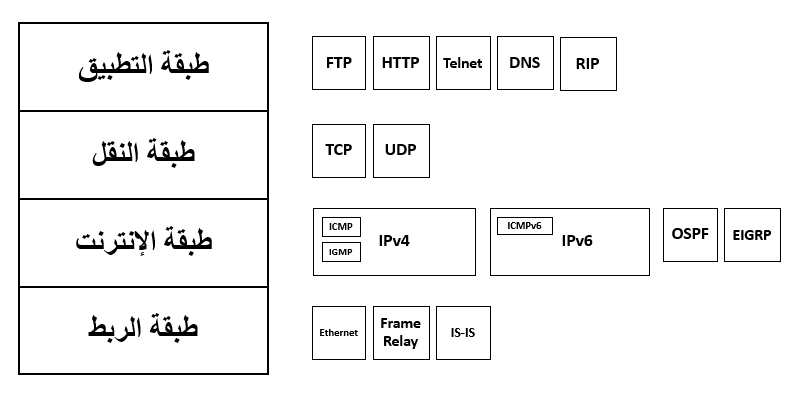 TCP/IP Model and a part of its protocol suite.